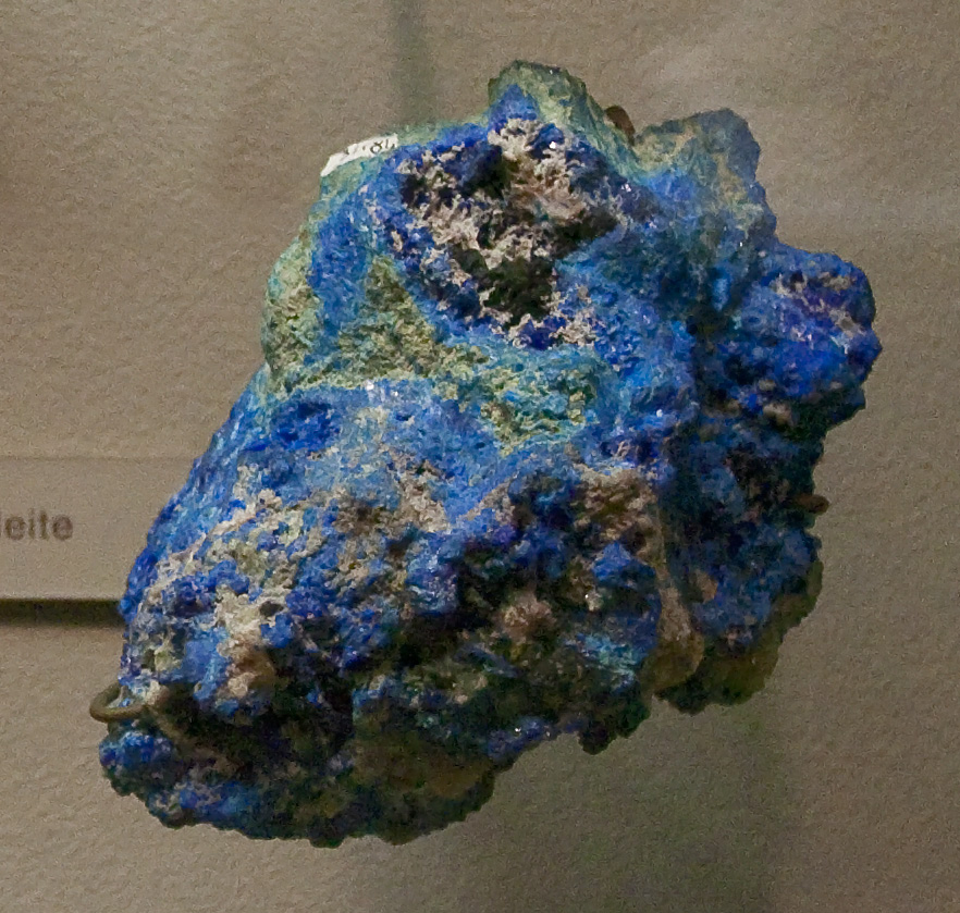 Diaboleite on display at the New York Museum of Natural History.